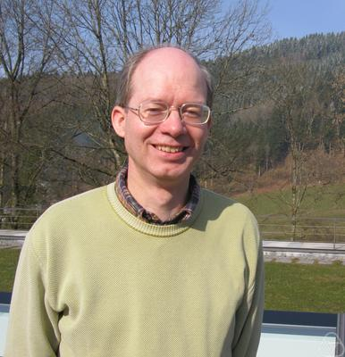 On the Photo: Keller, Bernhard - Occasion:Workshop: Representation Theory of Quivers and Finite Dimensional Algebras - Location: Oberwolfach - Author: Schmid, Renate - Source: MFO - Year: 2011 - Copyright: MFO - Photo ID: 13791